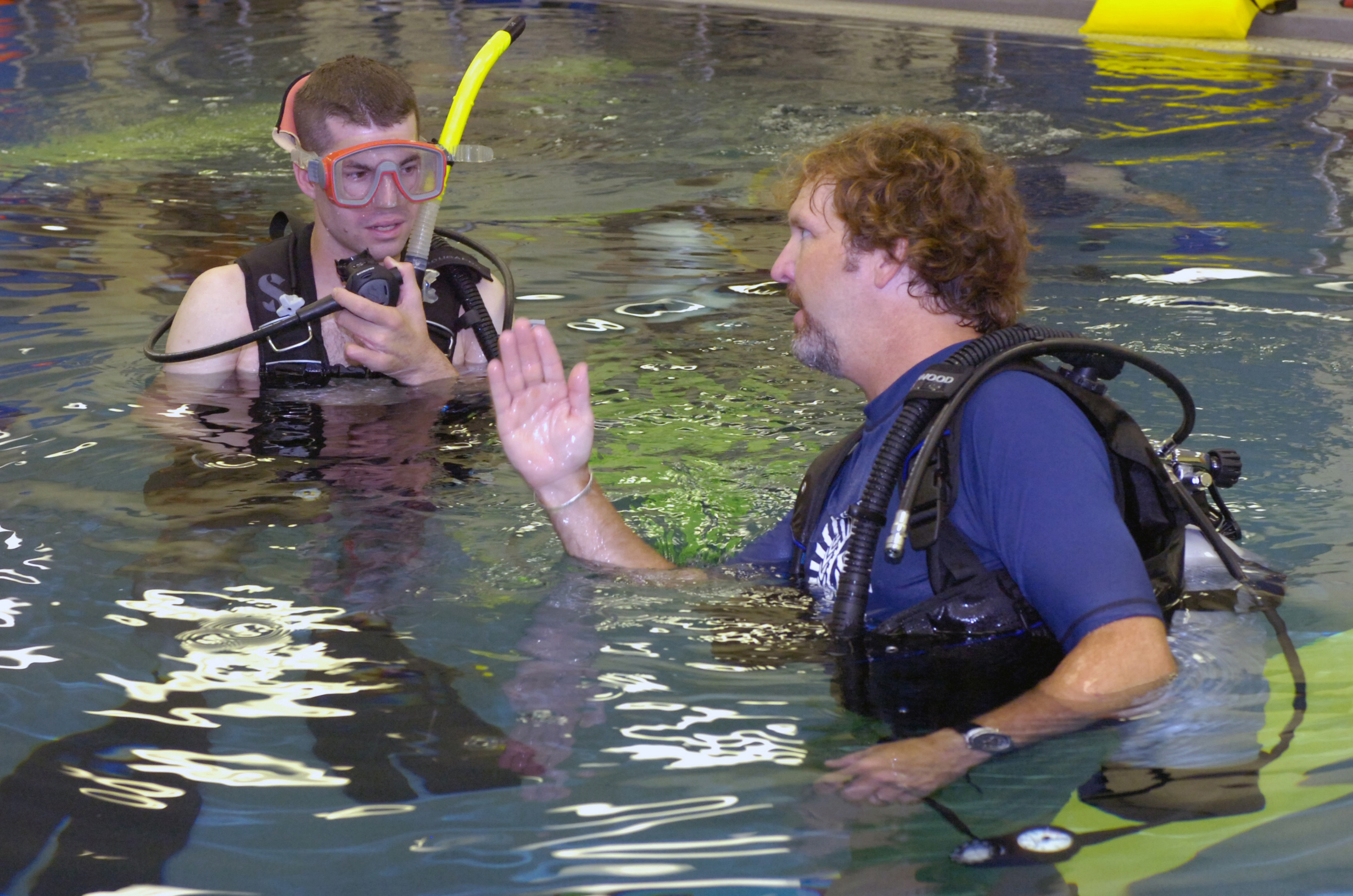 Wisconsin Army National Guard Sgt. Darrell "J.R." Salzman, 27, an Infantryman who lost part of his right arm after the detonation of an explosive device near Baghdad, Iraq, on Dec. 19, 2006, learns to scuba dive from volunteer instructor John W. Thompson, a former National Guardsman, in the Soldiers Undertaking Scuba Diving (SUDS) program at Walter Reed Army Medical Center on June 7, 2007. (U.S. Army photo by Staff Sgt. Jim Greenhill) (Released)